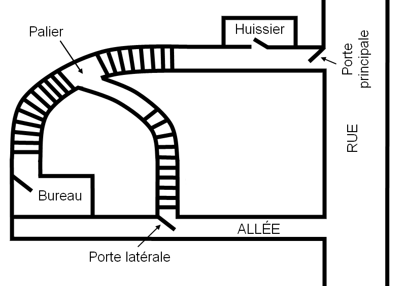 Adaptation of an illustration from the Sherlock Holmes short story "The Adventure of the Naval Treaty". The original illustration, which appeared in The Strand Magazine in October, 1893, was captioned "HERE IS A ROUGH CHART OF THE PLACE."